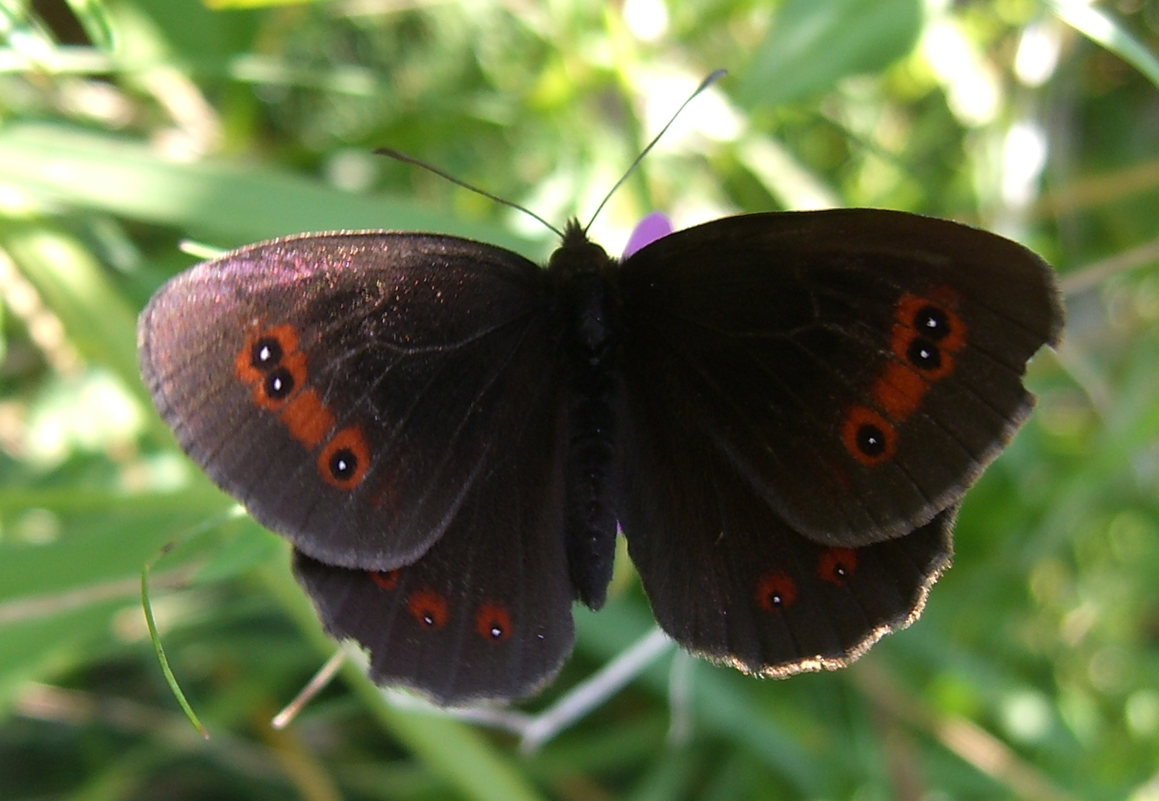 Description: Erebia aethiops